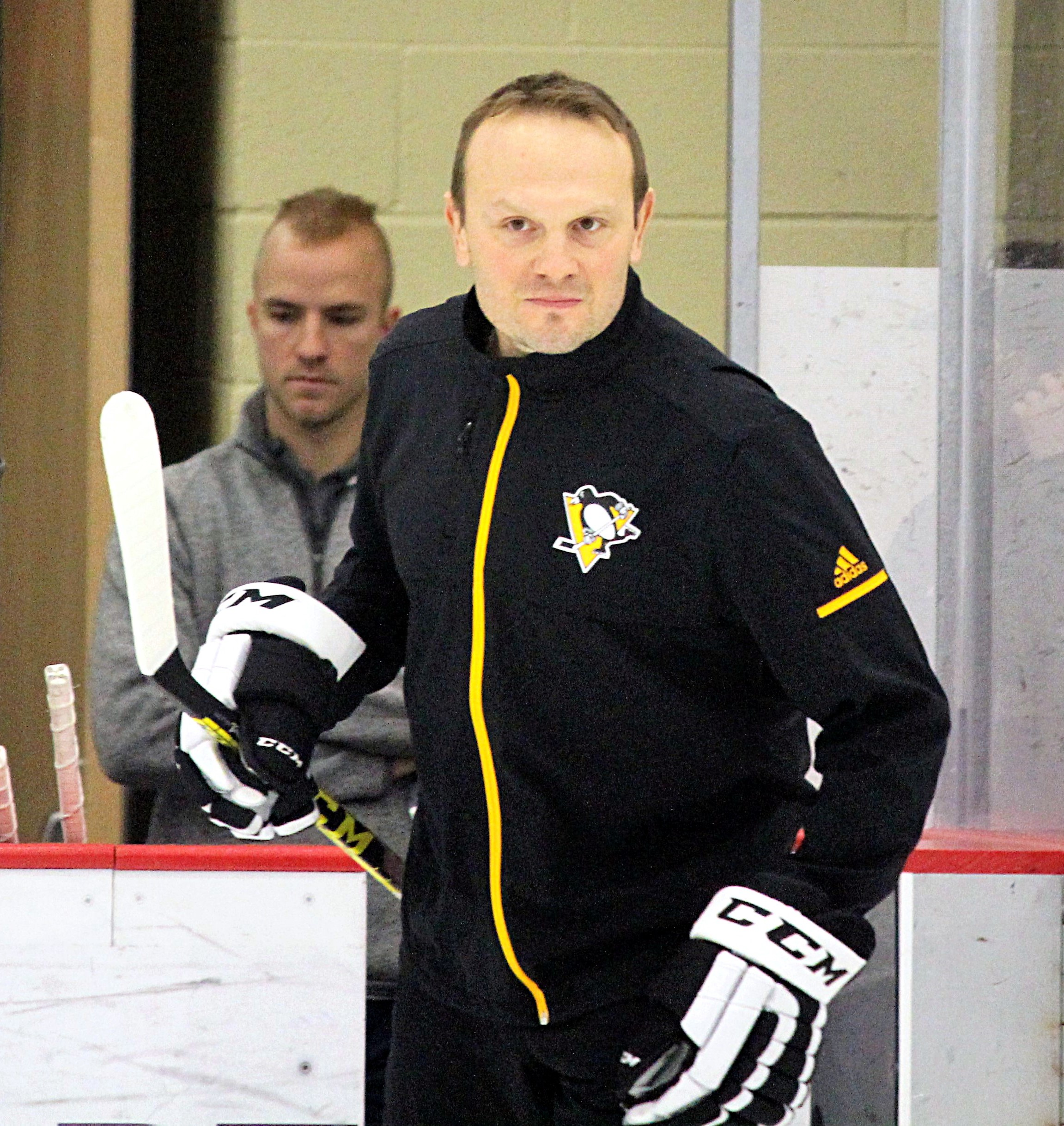 Pittsburgh Penguins assistant coach Sergei Gonchar during practice at UPMC Lemieux Sports Complex in Cranberry Twnshp, PA. Friday, March 2, 2018.